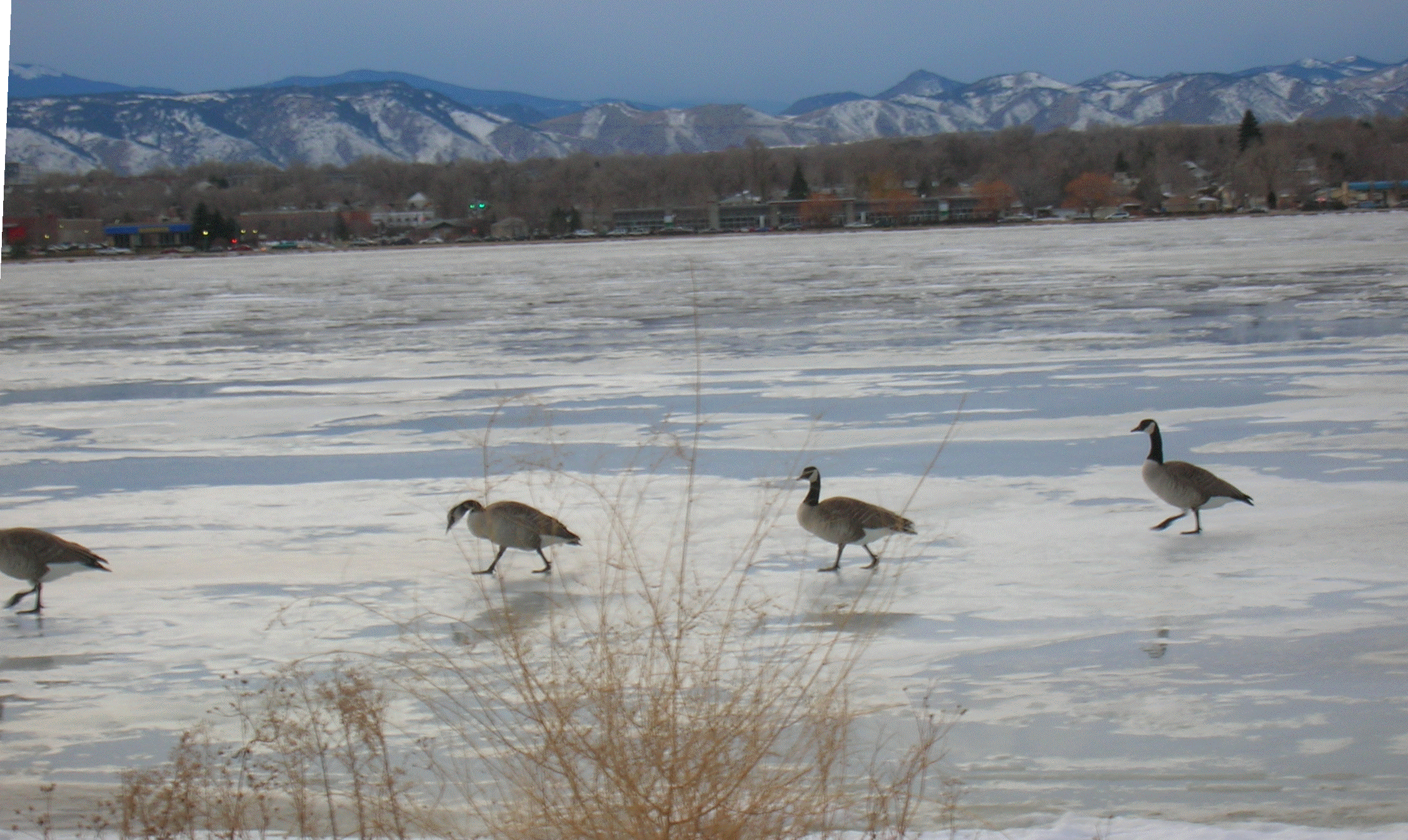 Picture of geese on a frozen Sloan's Lake in winter.